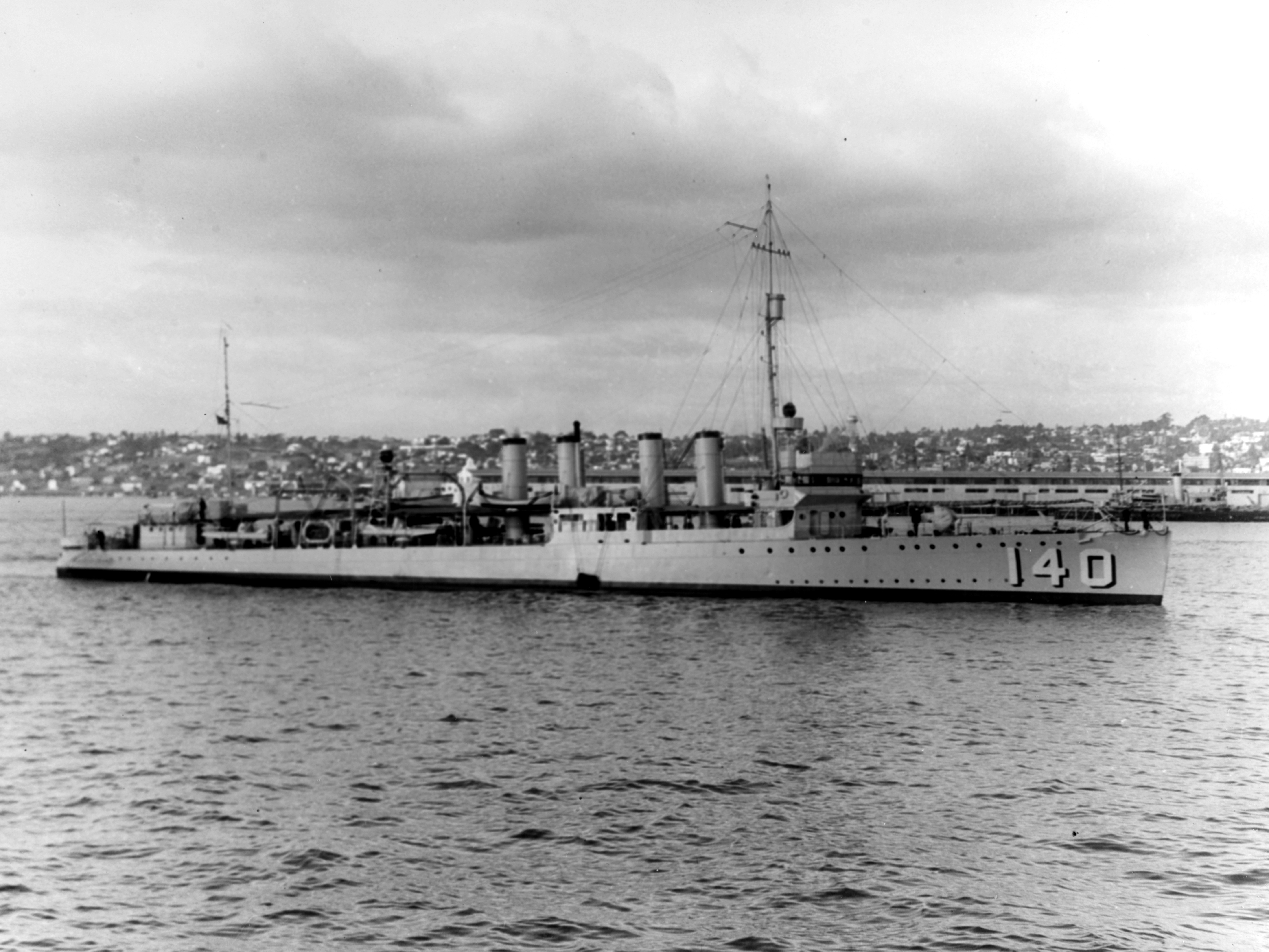 The U.S. Navy destroyer USS Claxton (DD-140) underway in San Diego Harbor, California (USA), on 7 October 1932.